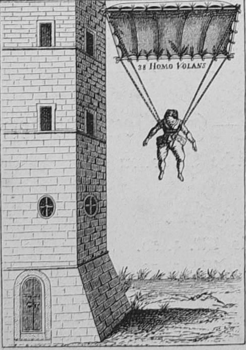 caption: "Veranzio's Fallschirm."